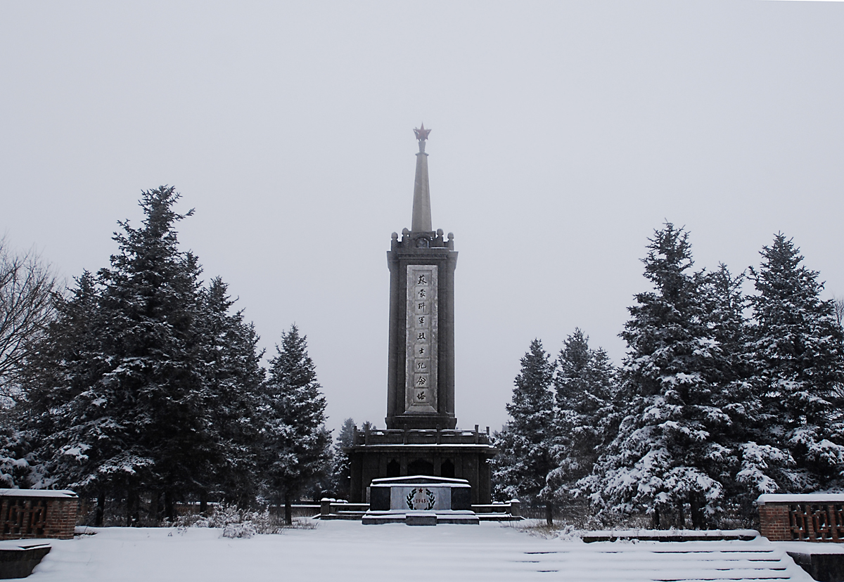 Soviet-Mongolian Coalition Anti-Japanese Martyrs Memorial Tower